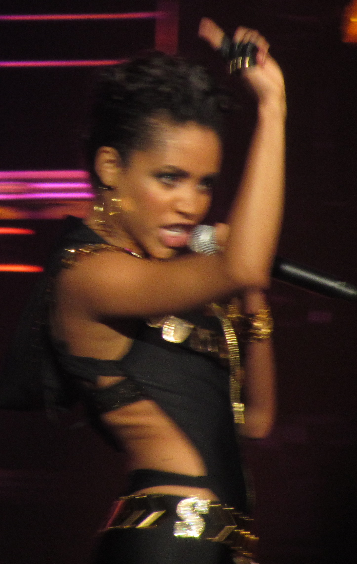 Sabi during performance on Femme Fatale Tour in 2011.